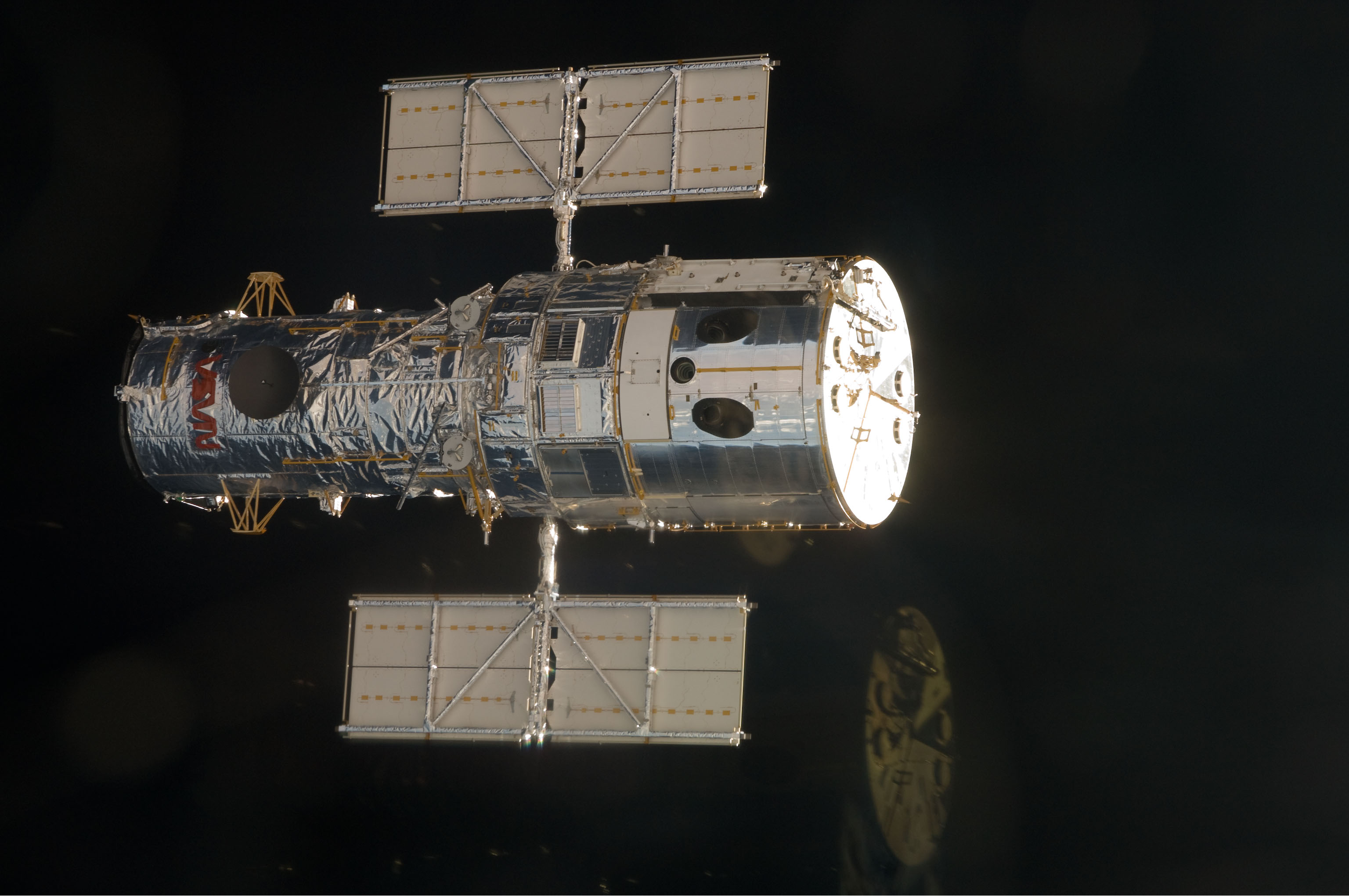 An STS-125 crewmember onboard the Space Shuttle Atlantis snapped a still photo of the Hubble Space Telescope as the two spacecraft approached each other in Earth orbit prior to the capture of the giant observatory.